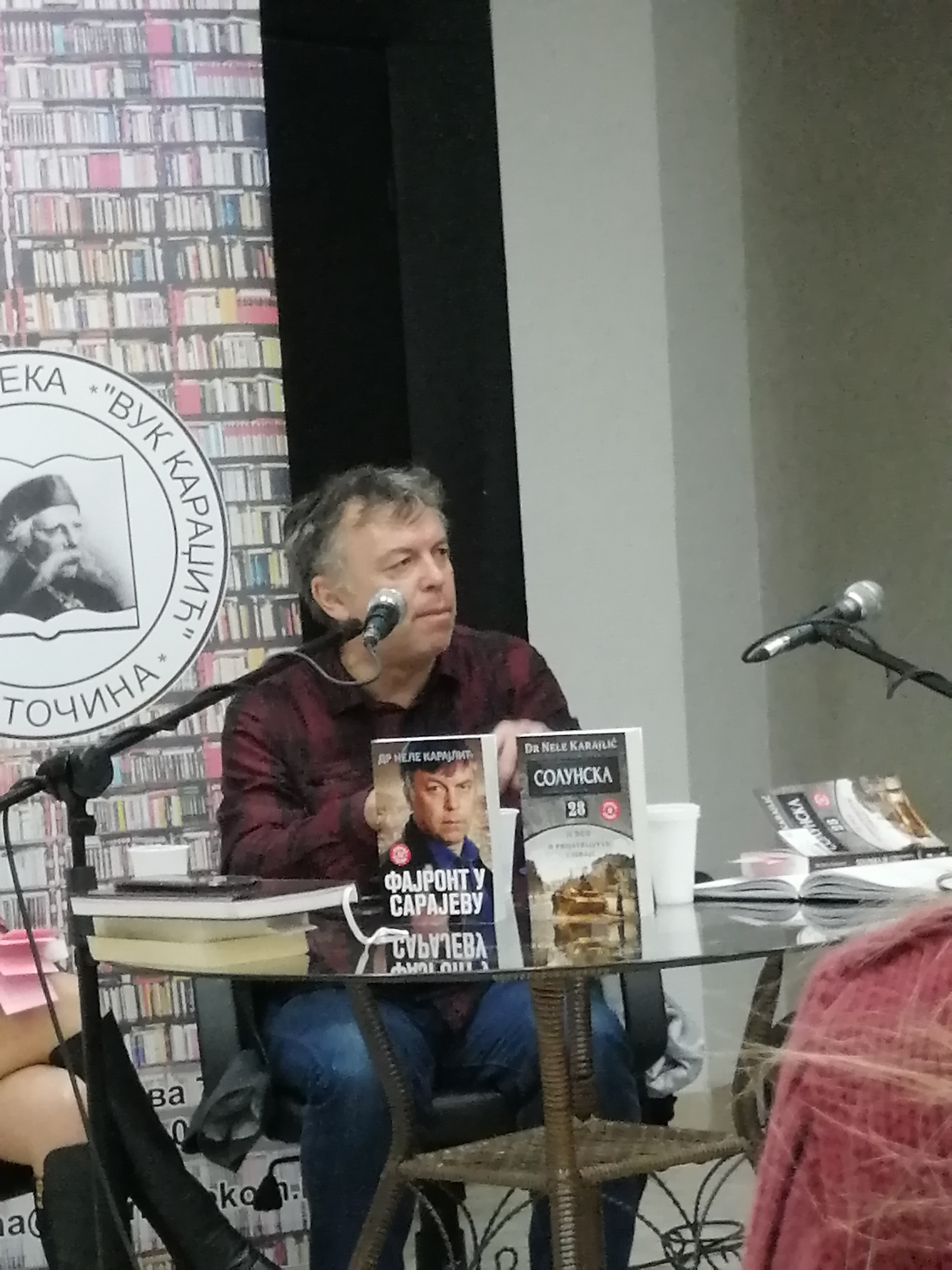 Nenad Janković known as Dr Nele Karajlić, is a comedian, musician, composer, actor and television director Srpski (latinica): Nenad Janković poznatiji po svom pseudonimu dr Nele Karajlić je rok muzičar, kompozitor, glumac, pisac i nekadašnji televizijski režiser u Jugoslaviji.